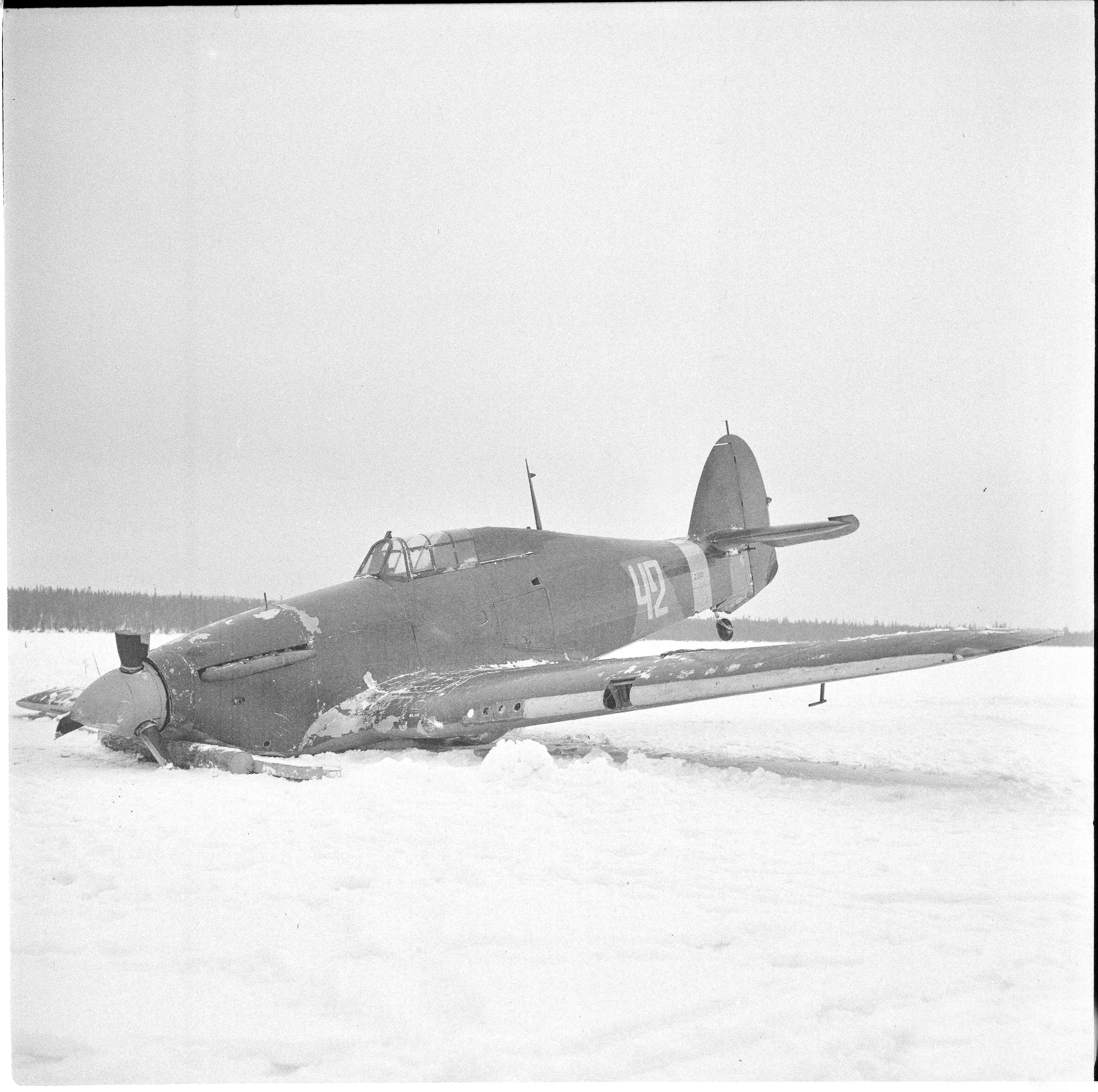 Soviet Hurricane fighter that was shot down by finns near Kiestiki-Uhtua.